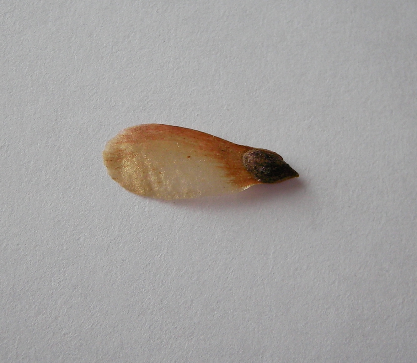 Picea abies, Norway spruce: seed